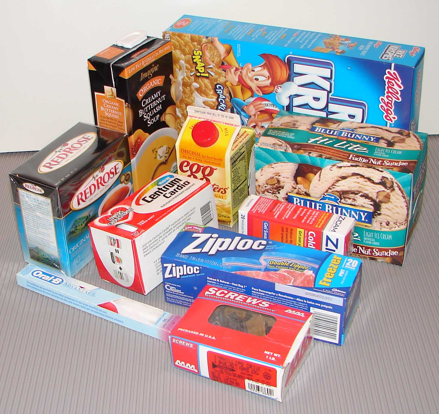 Photo by R L Sheehan of commercial cartons